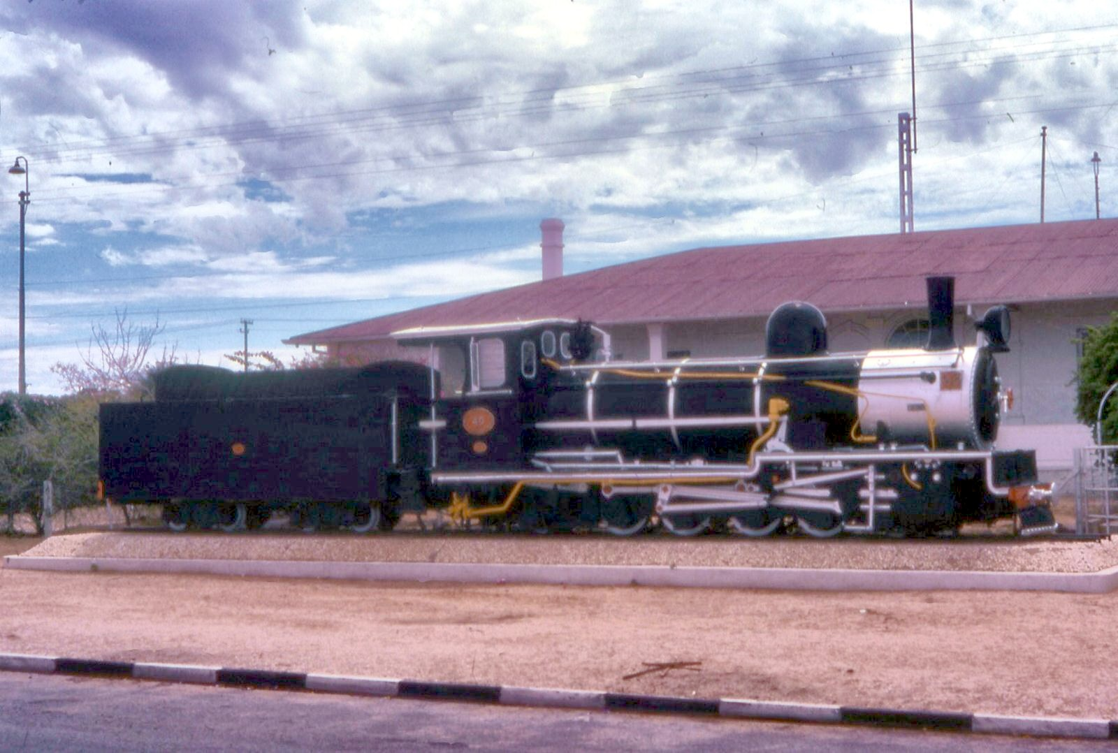 Class Hd 40 (2-8-2)Location: Usakos, Namibia